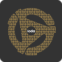 ioda company logo